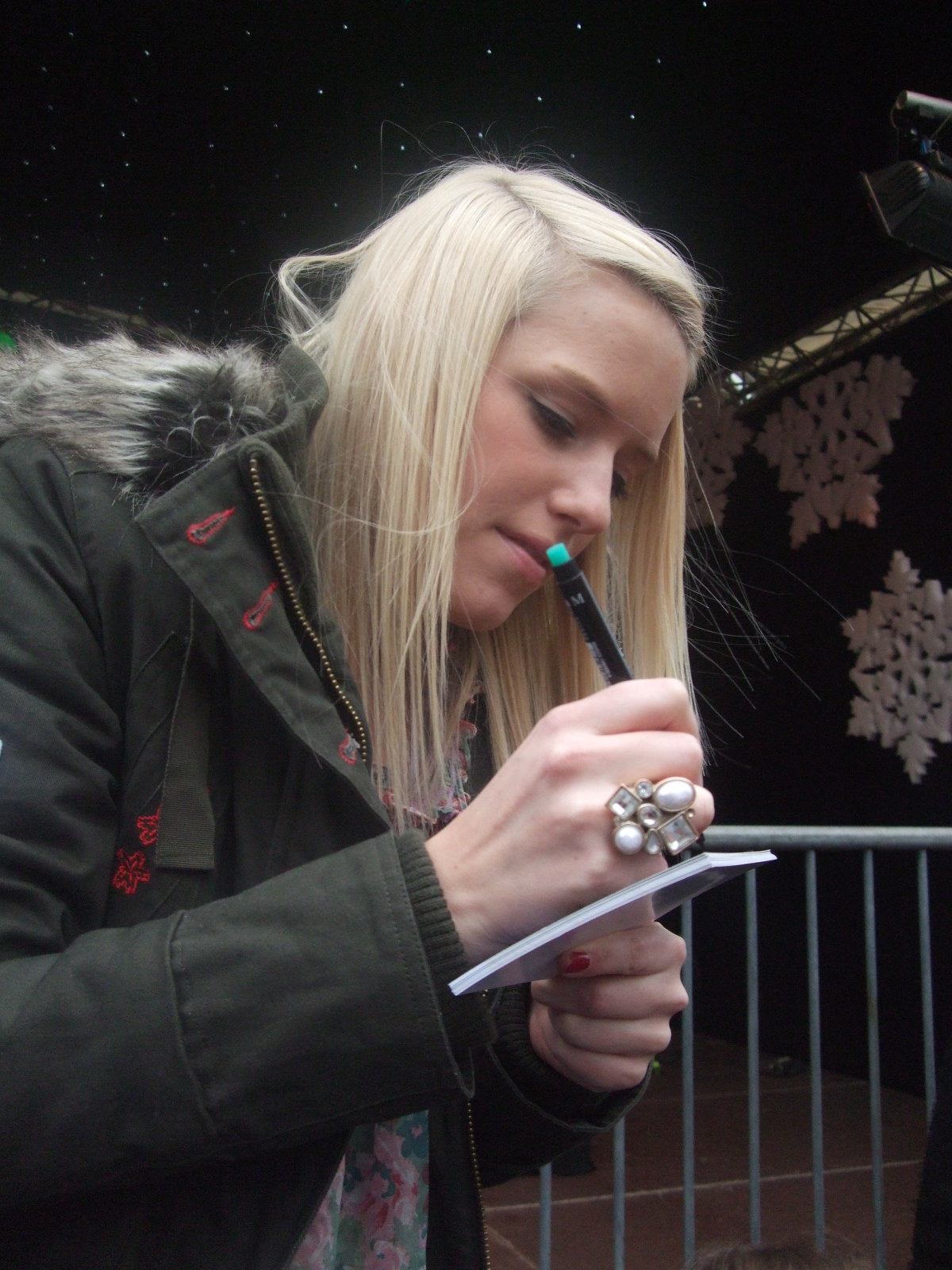 Vanessa Meisinger from "Some & Any"